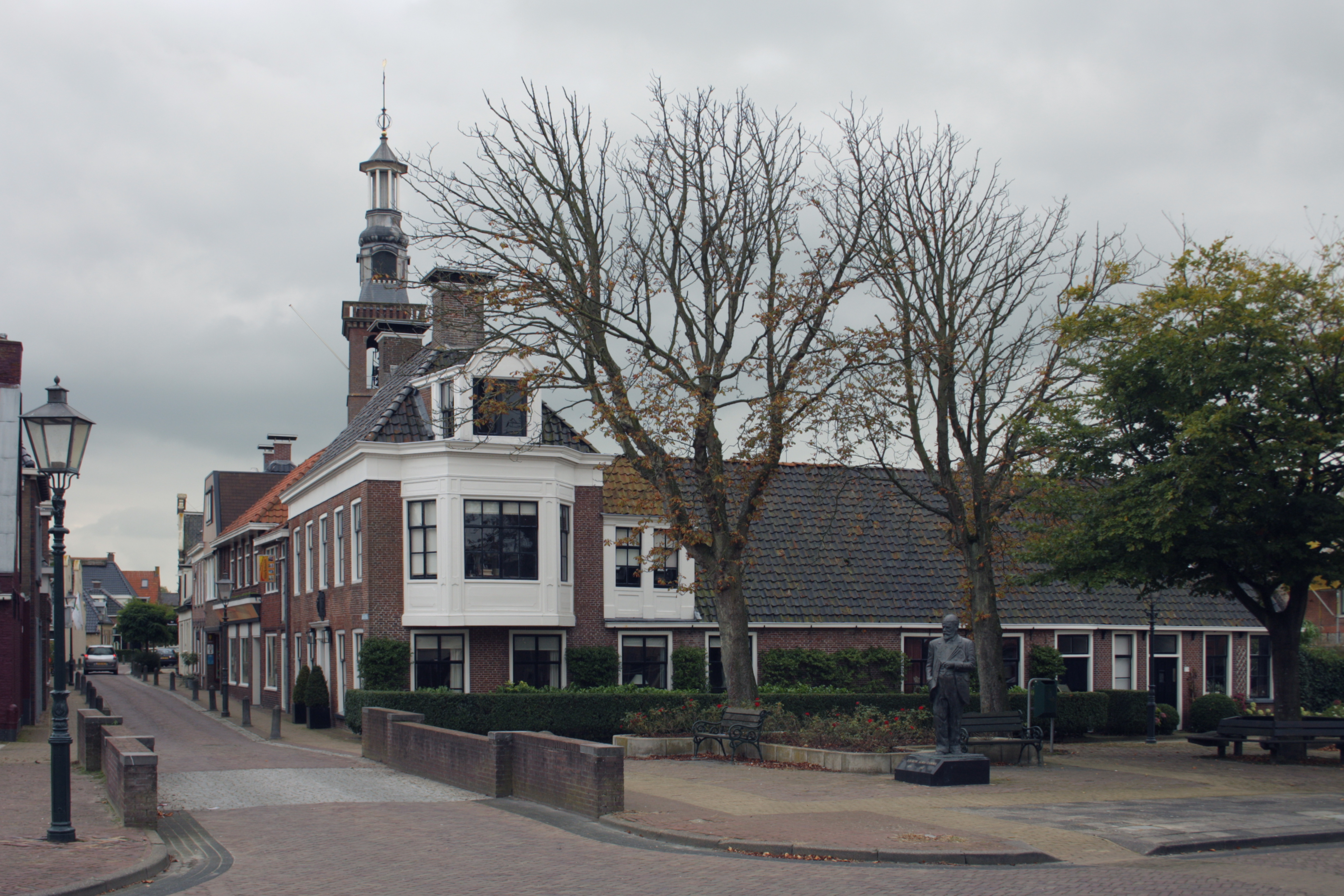 Dronrijp, Dï¿½belestreek 2, Alma Tademahuis, het huis en het plein ervoor met het standbeeld van Alma Tadema.